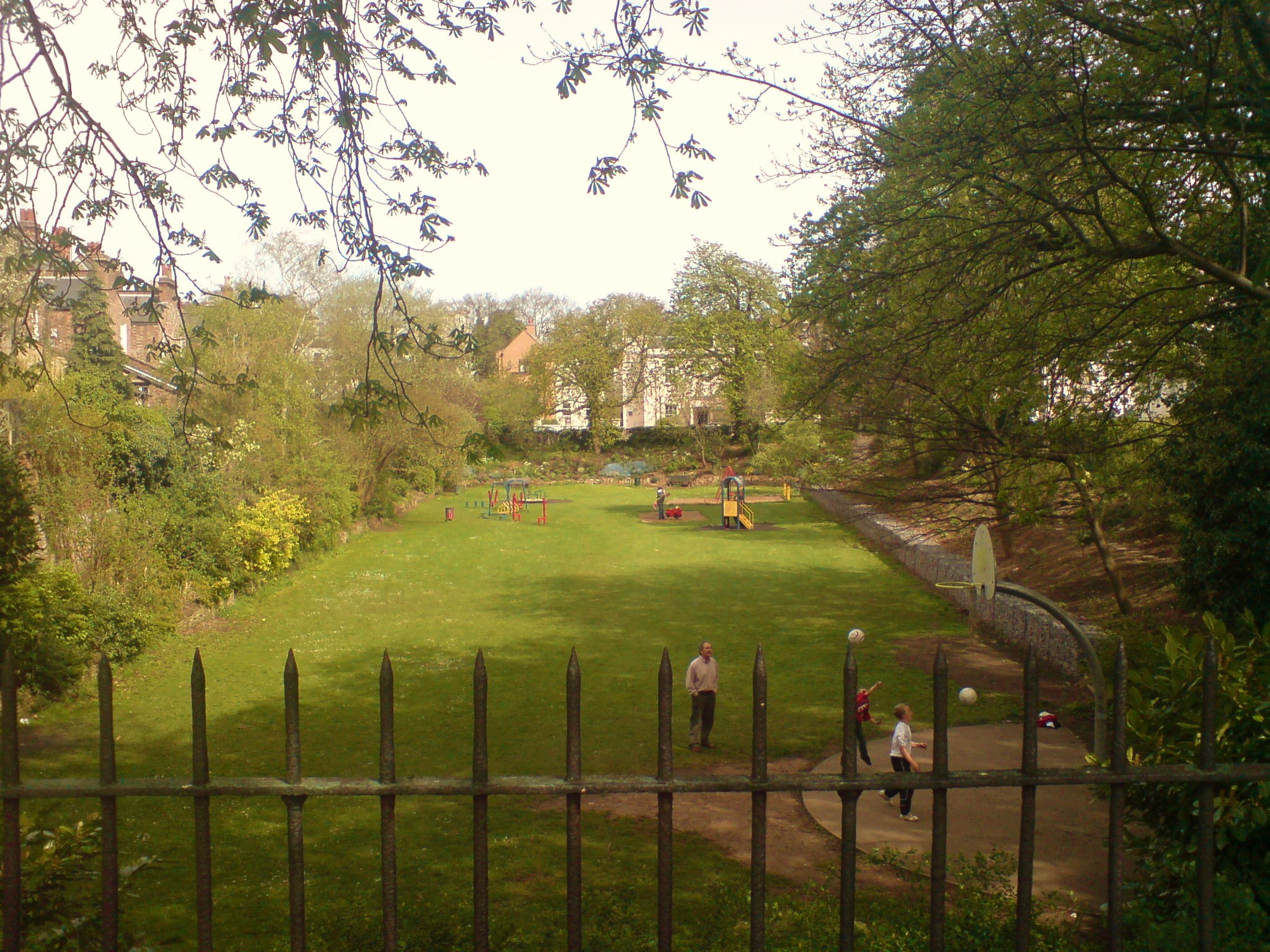 A photo of The Dell taken on 25/04/2008 taken by cls14